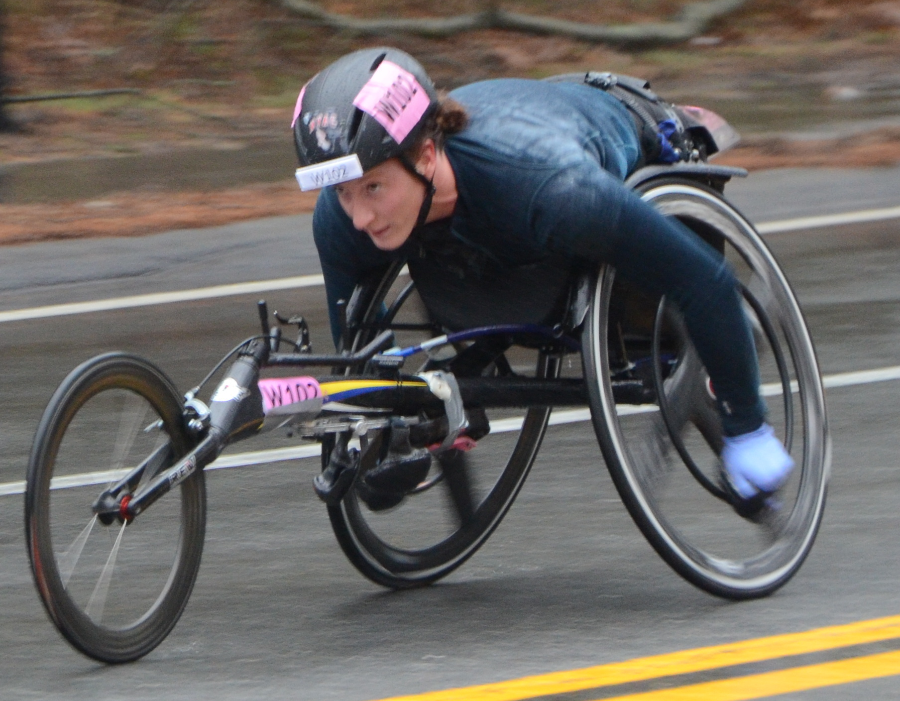 Tatyana McFadden near halfway point of Boston Marathon 2018 in which she got first place.